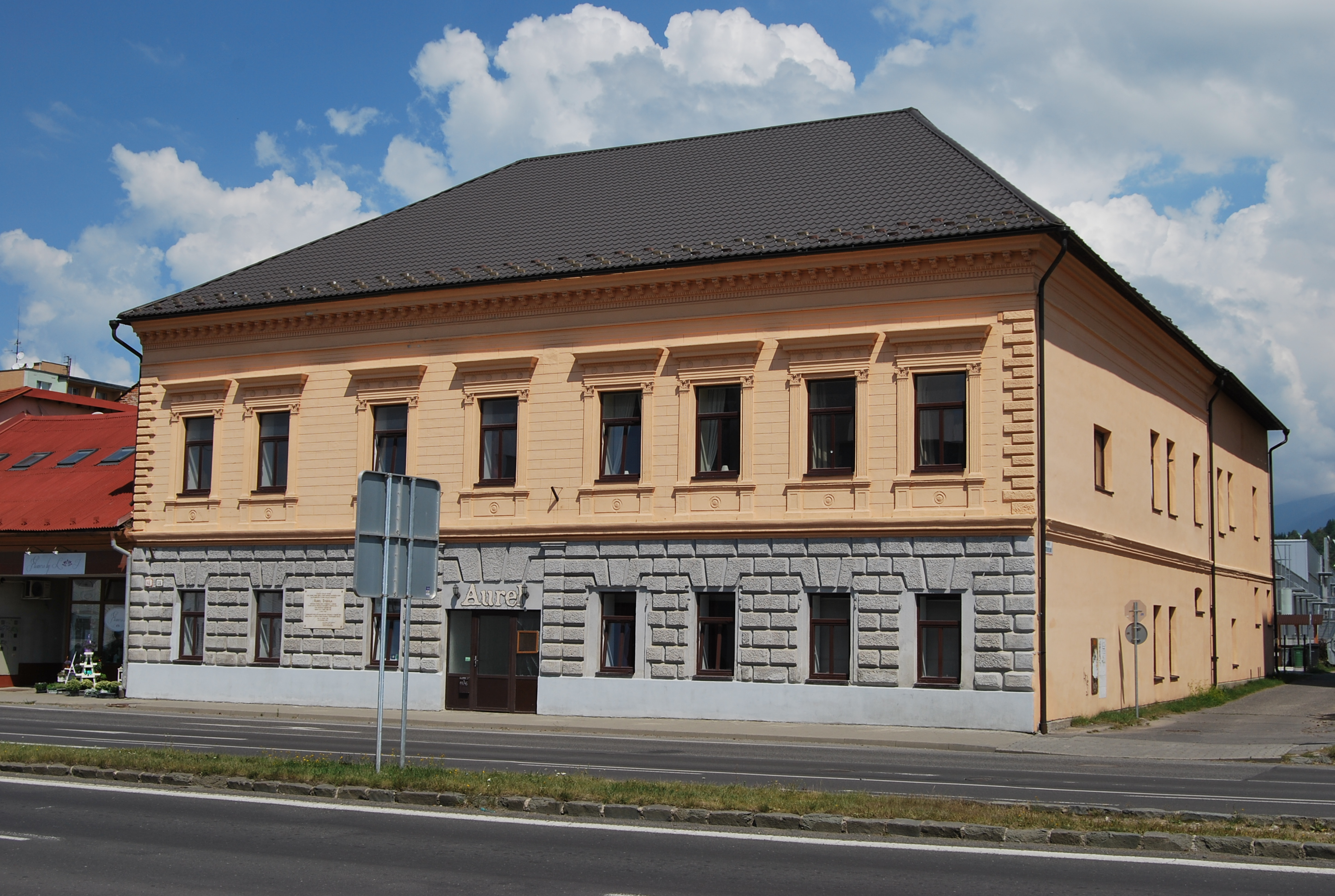 Liptovský Mikuláš, Slovakia - birth-house of the inventor Aurel Stodola (1859 - 1942)